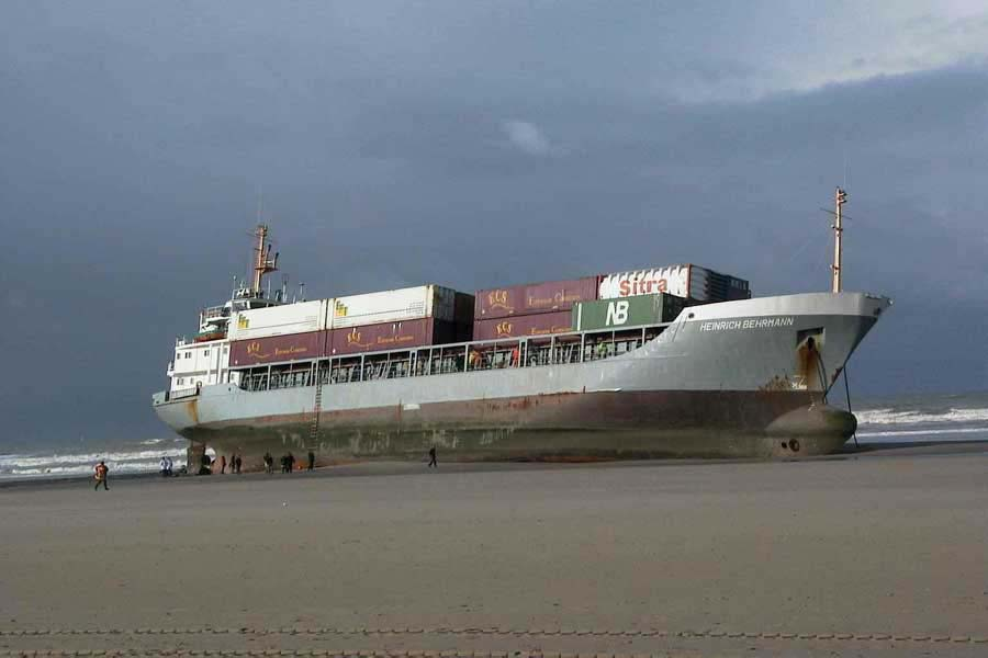 The cargo ship Heinrich Behrmann stranded on Blankenbergen beach after losing its rudder.